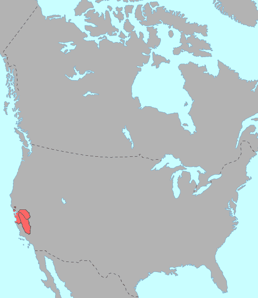 distribution of Yok-Utian languages, listed here are: Utian ( = Miwokan + Costanoan ) Yokutsan Created by User:ish ishwar in 2005, released under CC-by-2.0